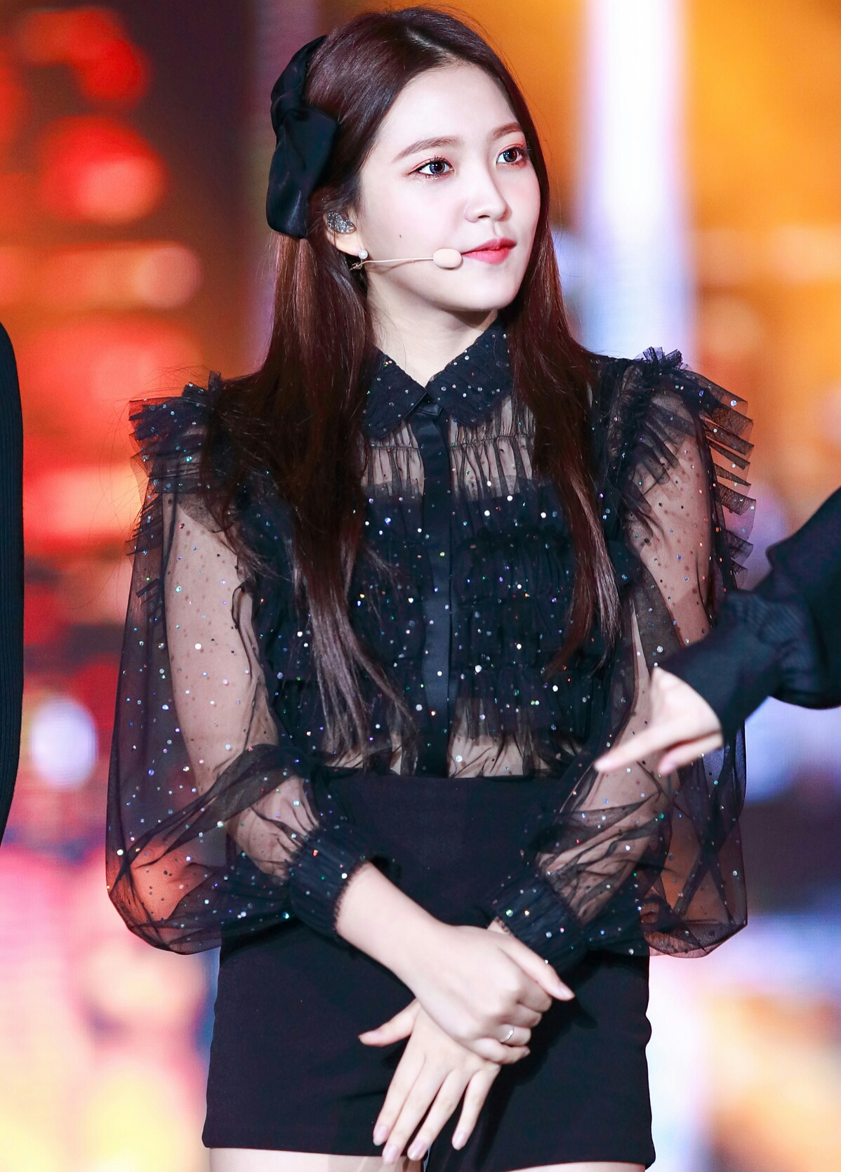 Kim Yeri at Korea Music Festival 2017 on October 01, 2017.